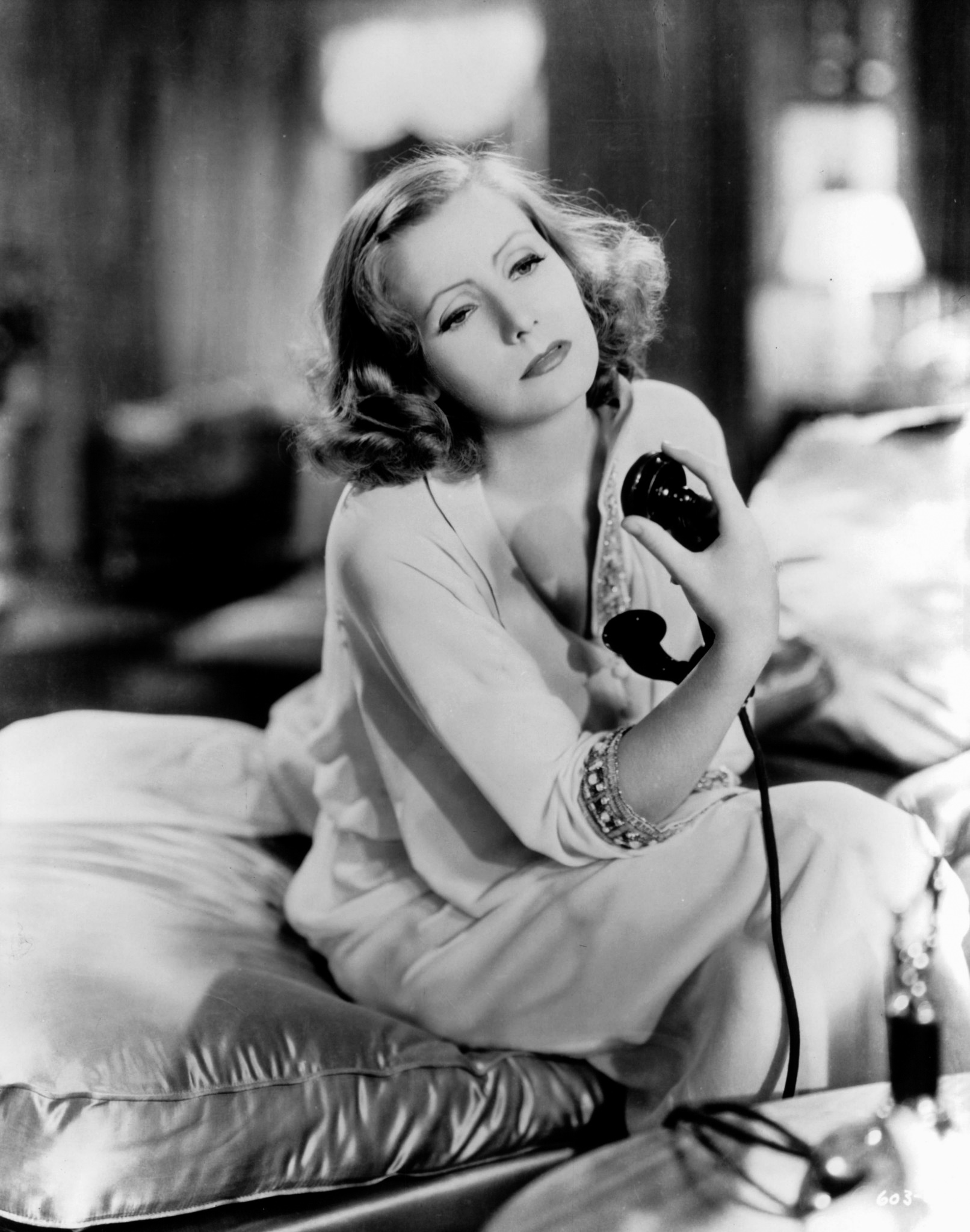 Scene from the 1932 film Grand Hotel; pictured is Greta Garbo.